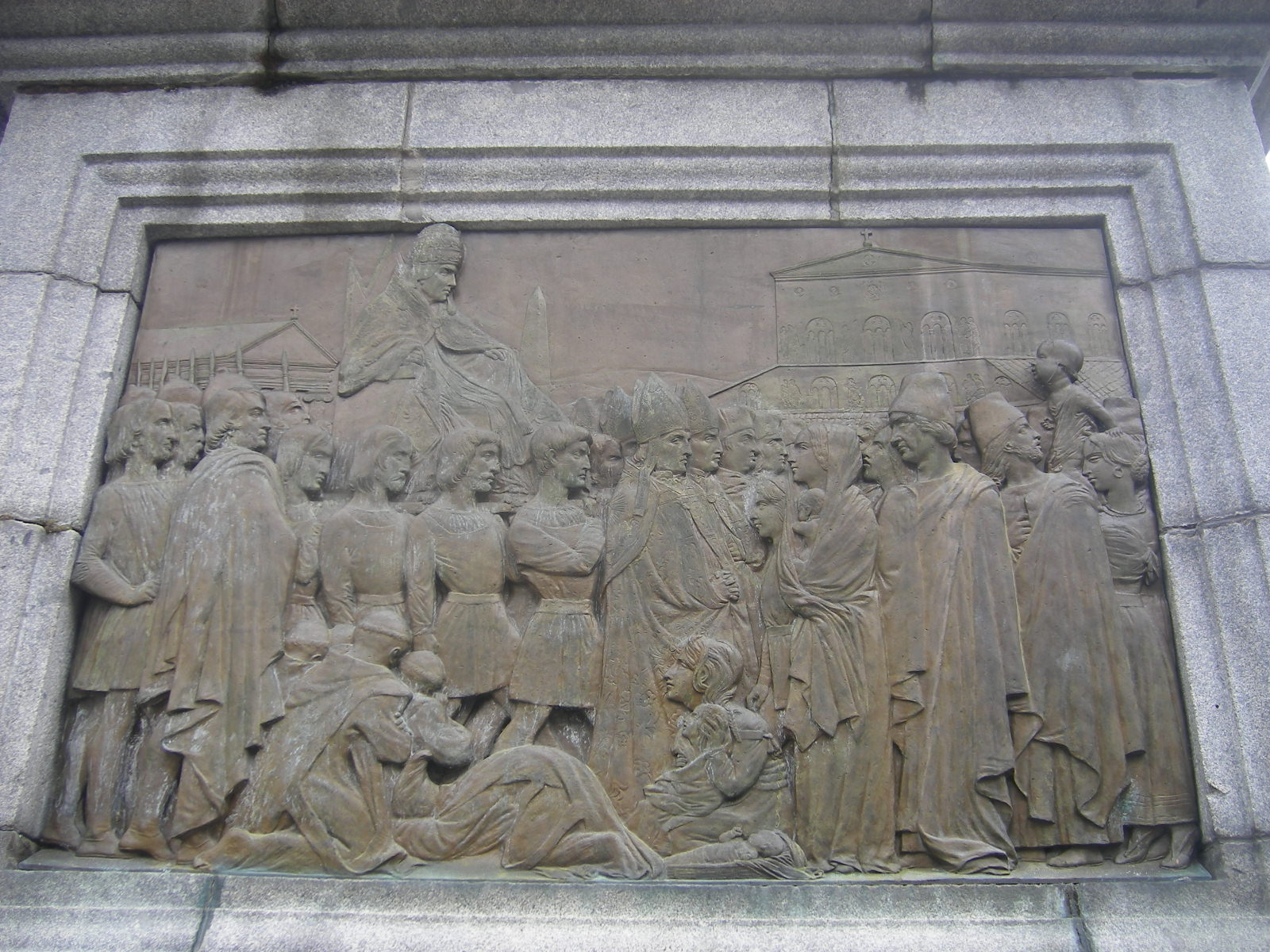 Aurillac - statue of Sylvester II